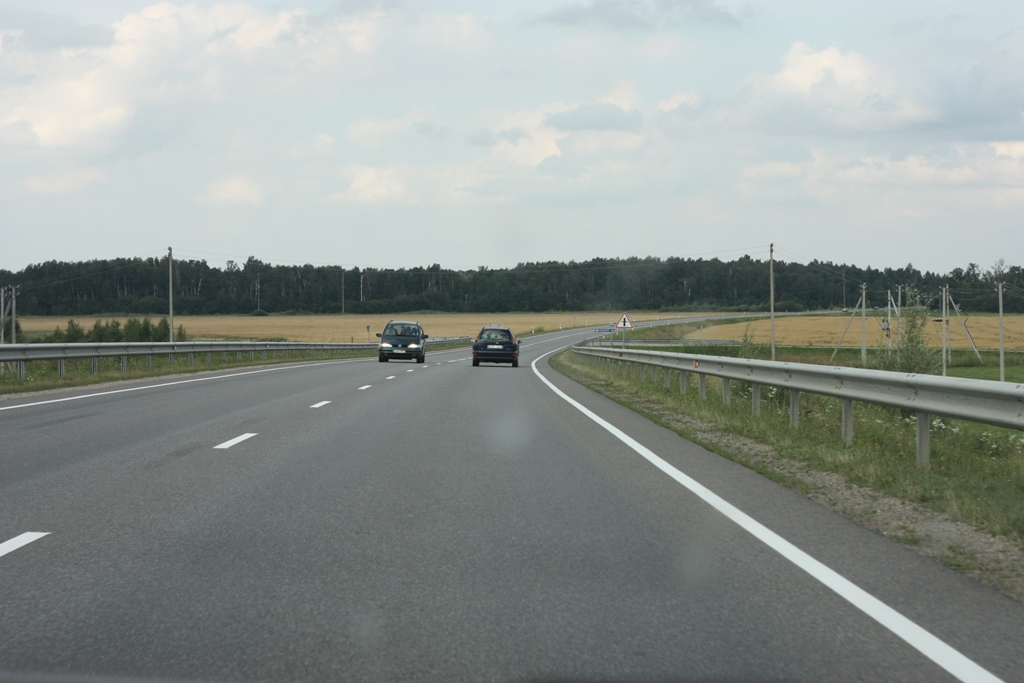 Road A17 (Panevėžys bypass) in Lithuania.